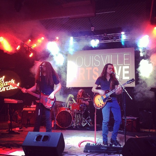 Jet Black Orchid live in late-2014